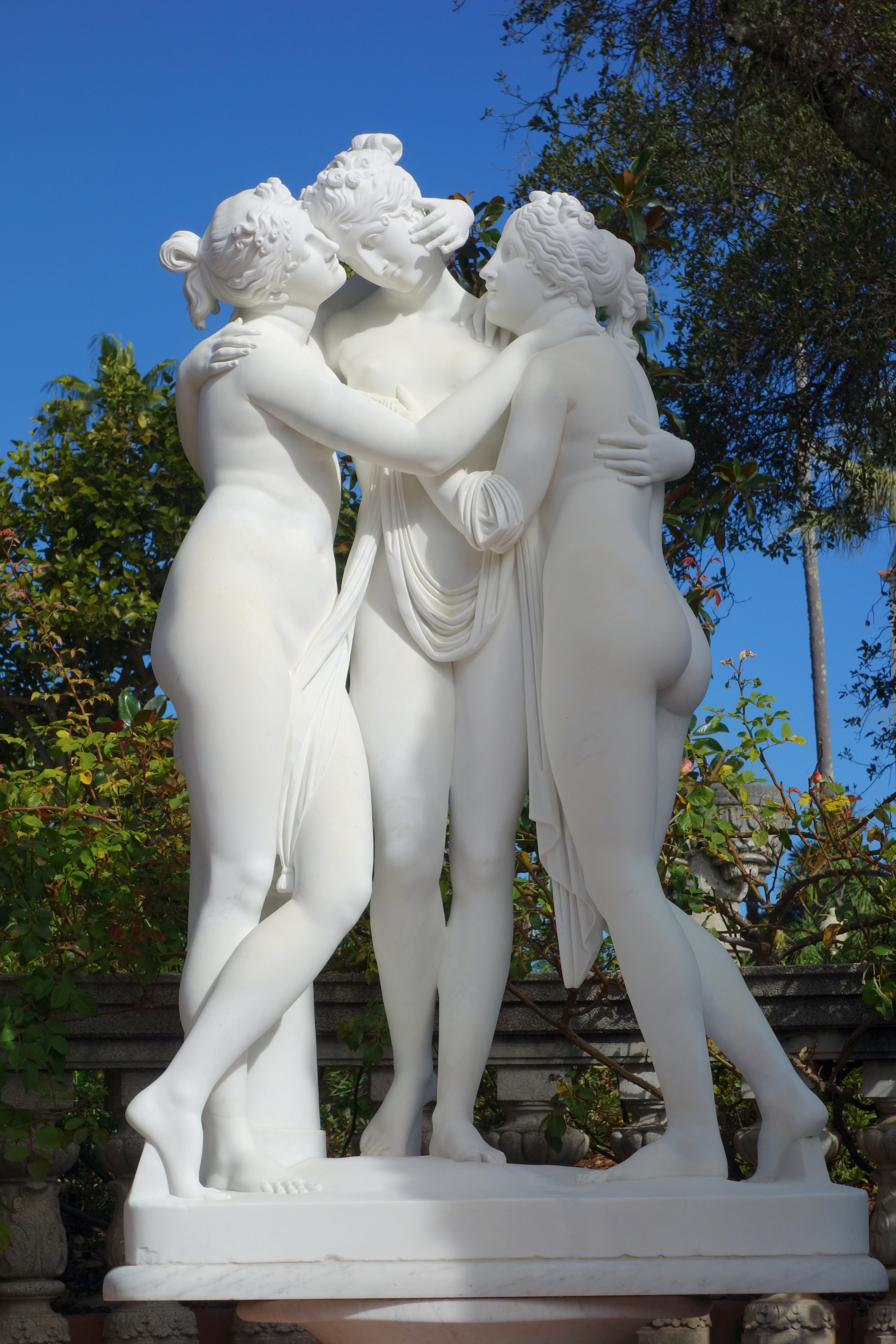 Sculpture at Hearst Castle, San Simeon, California, USA. Photograph was permitted without restriction in and around the castle. All artwork is old enough so that it is in the public domain.